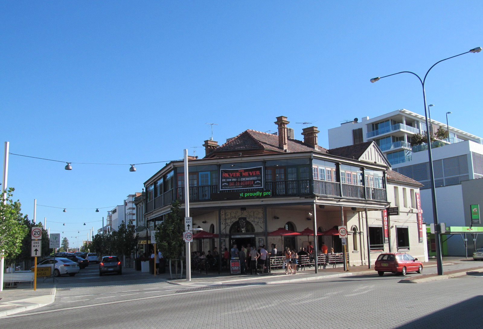 The Claremont Hotel in Gugeri Street, Claremont, Western Australia